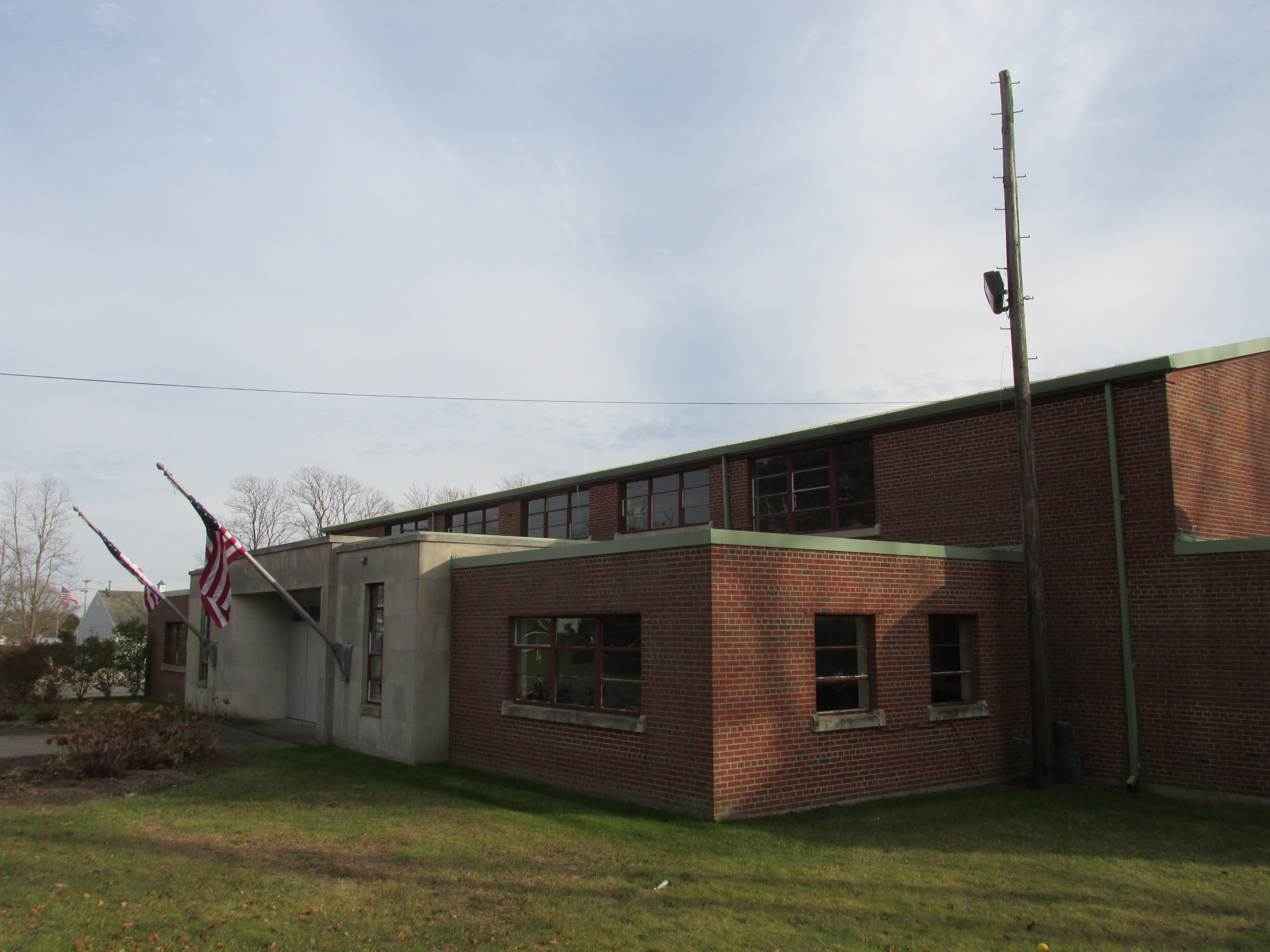 Hyannis Armory, Hyannis Massachusetts